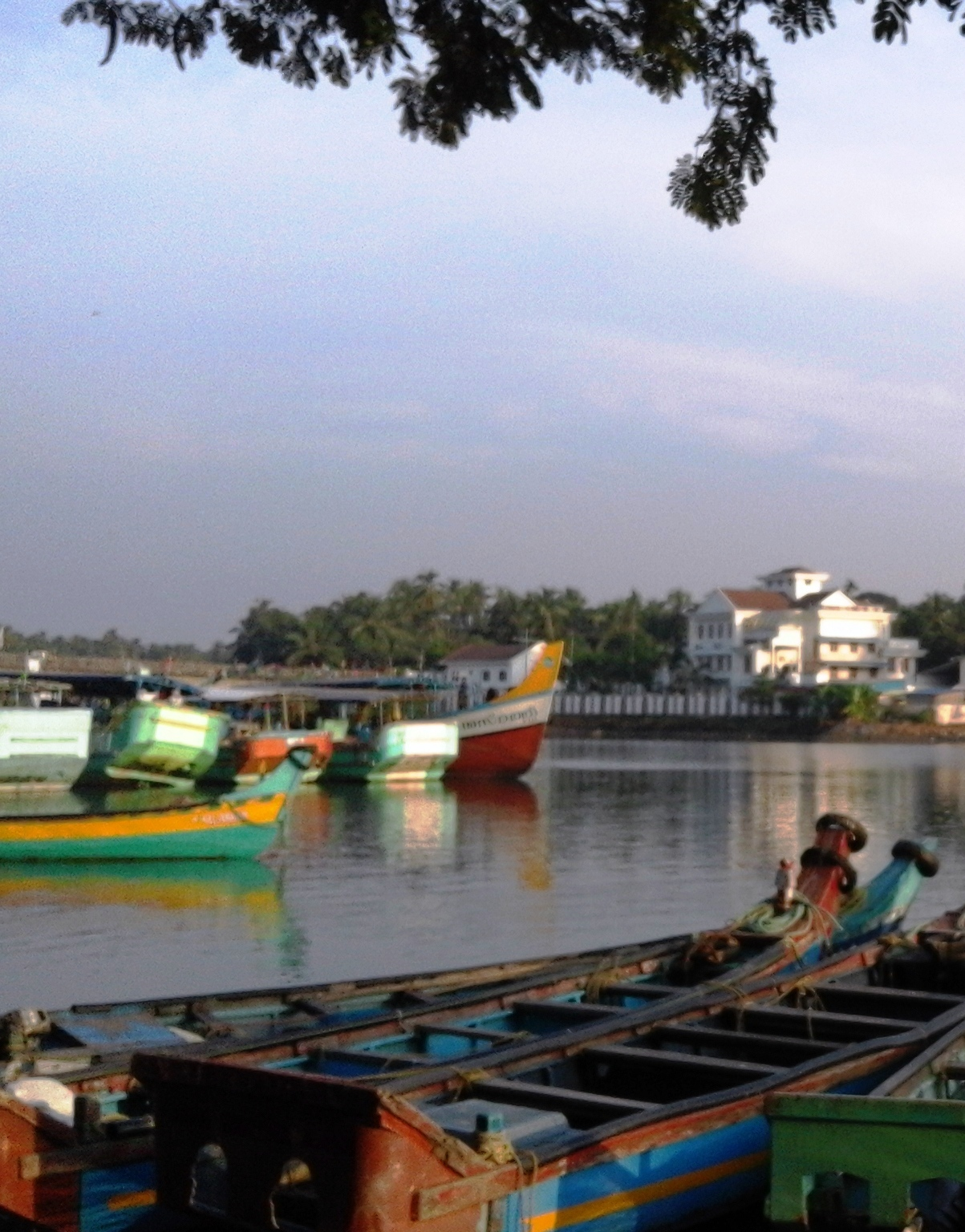 Feroke, Kozhikode District, Kerala province, India.